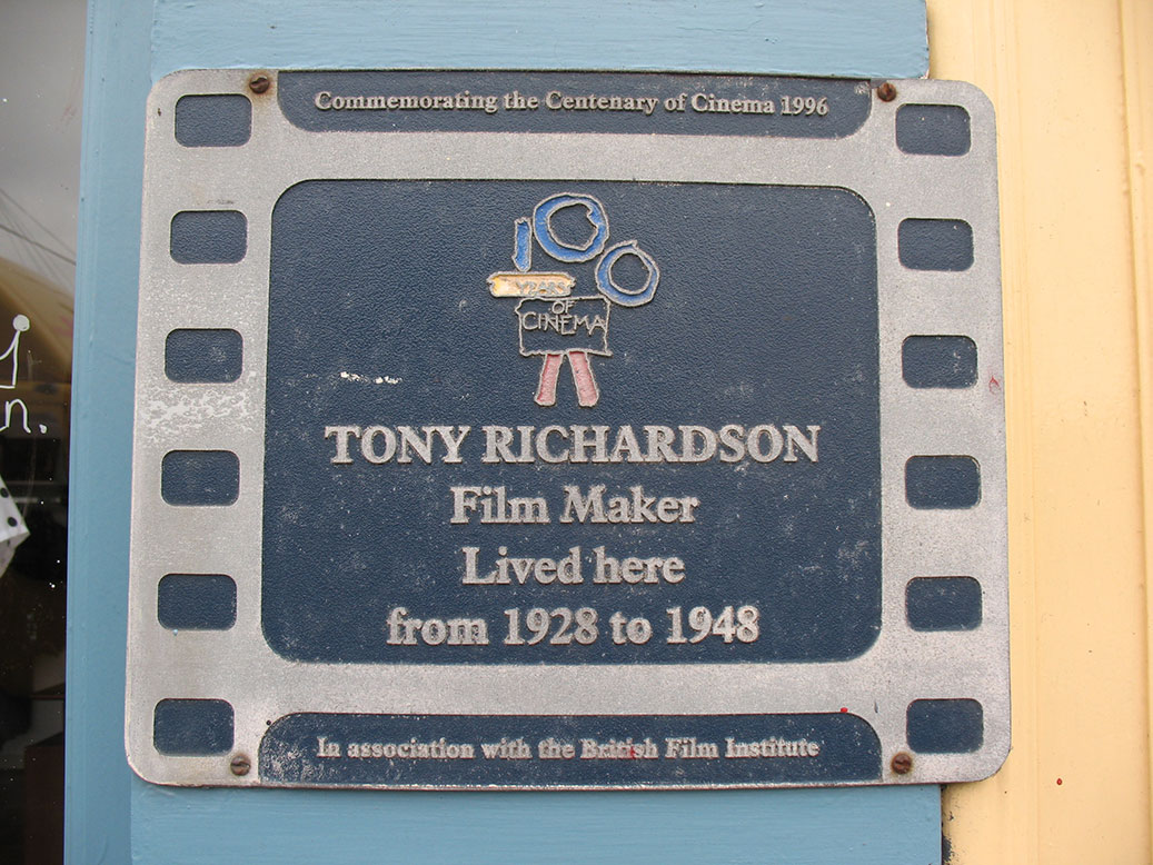 BFI Plaque marking director Tony Richardson's house 1928 - 1948, 28 Bingley Road, Shipley, West Yorkshire.